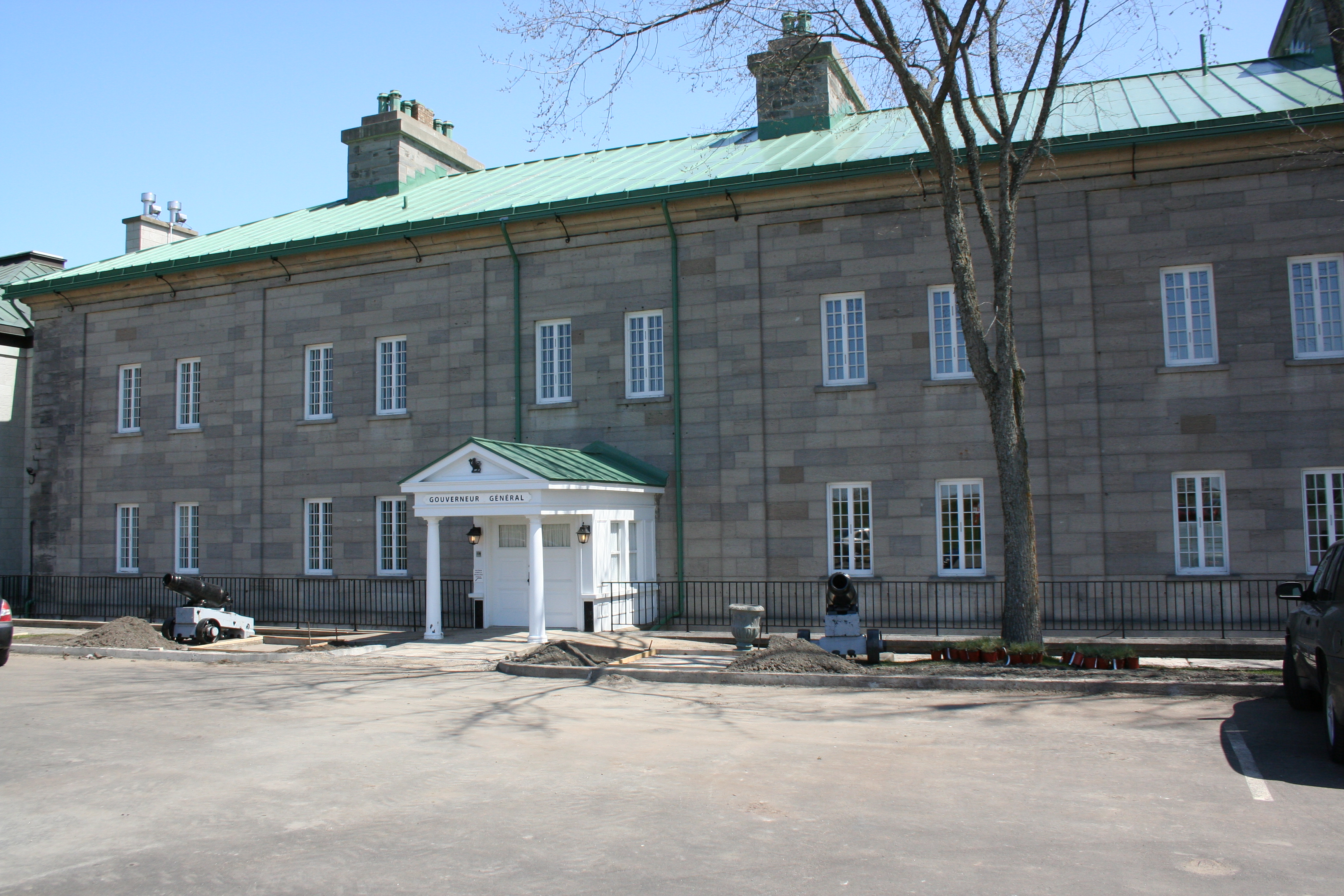 Residence of the Governor General in Quebec at The Citadelle, Quebec City, QC